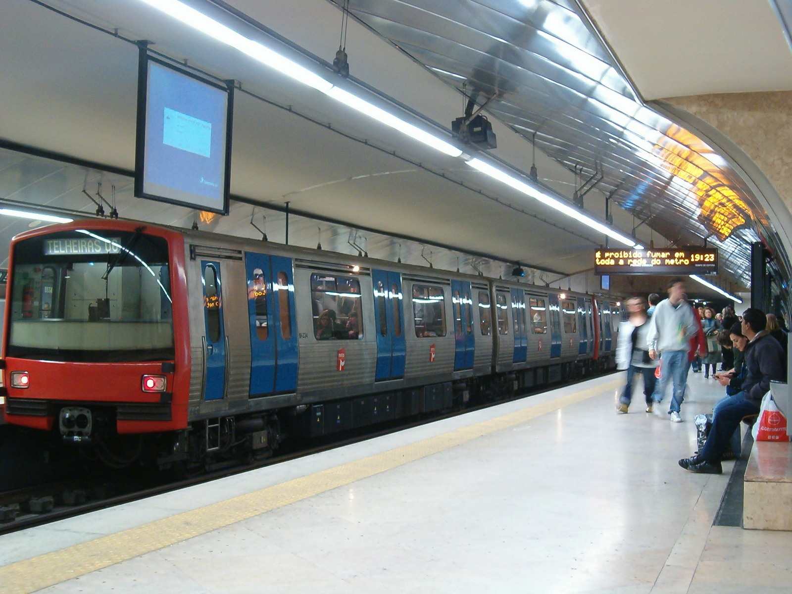 Metro station Alameda (Lisboa)